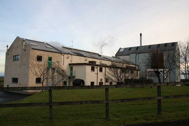 Clynelish Distillery A view of the rear of Diageo's Clynelish Distillery near Brora.